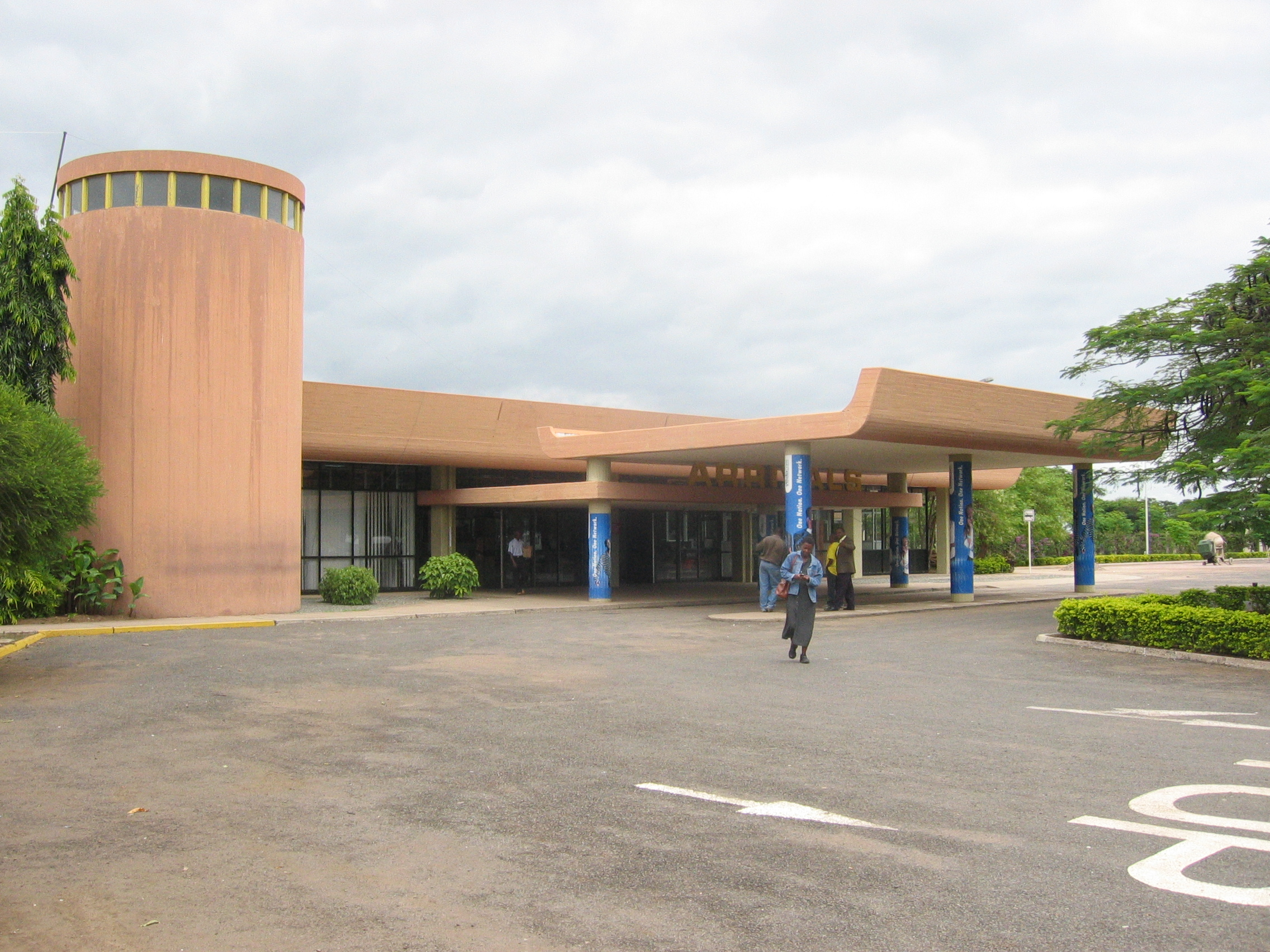 Kilimanjaro International Airport